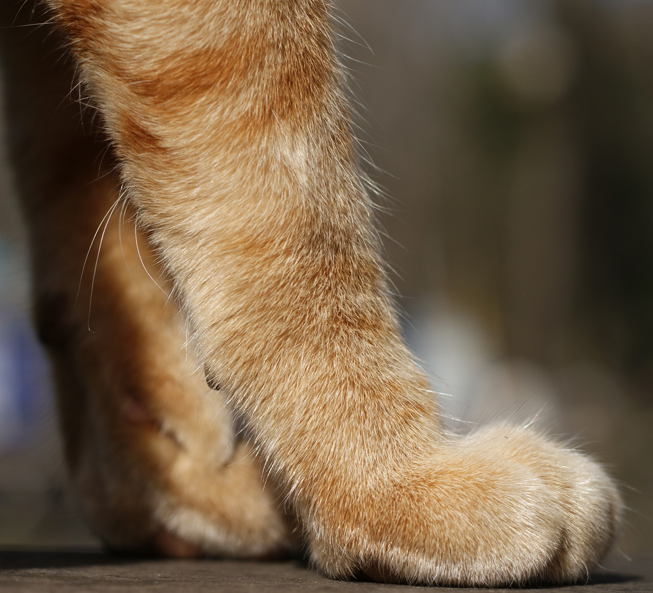 Vibrissae on cat's foreleg